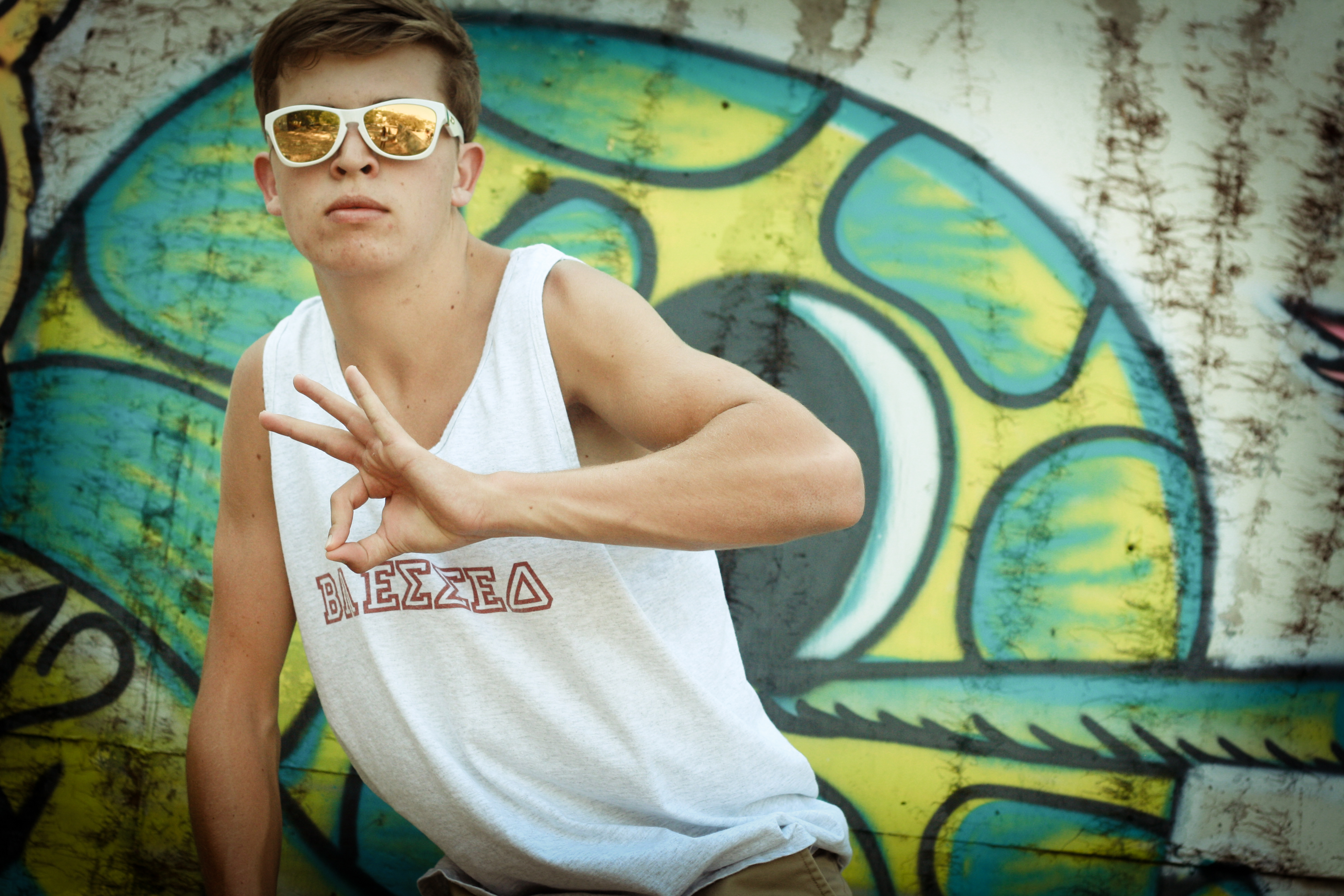 Photo to be used in infobox of Internet personality, Ben Breedlove.